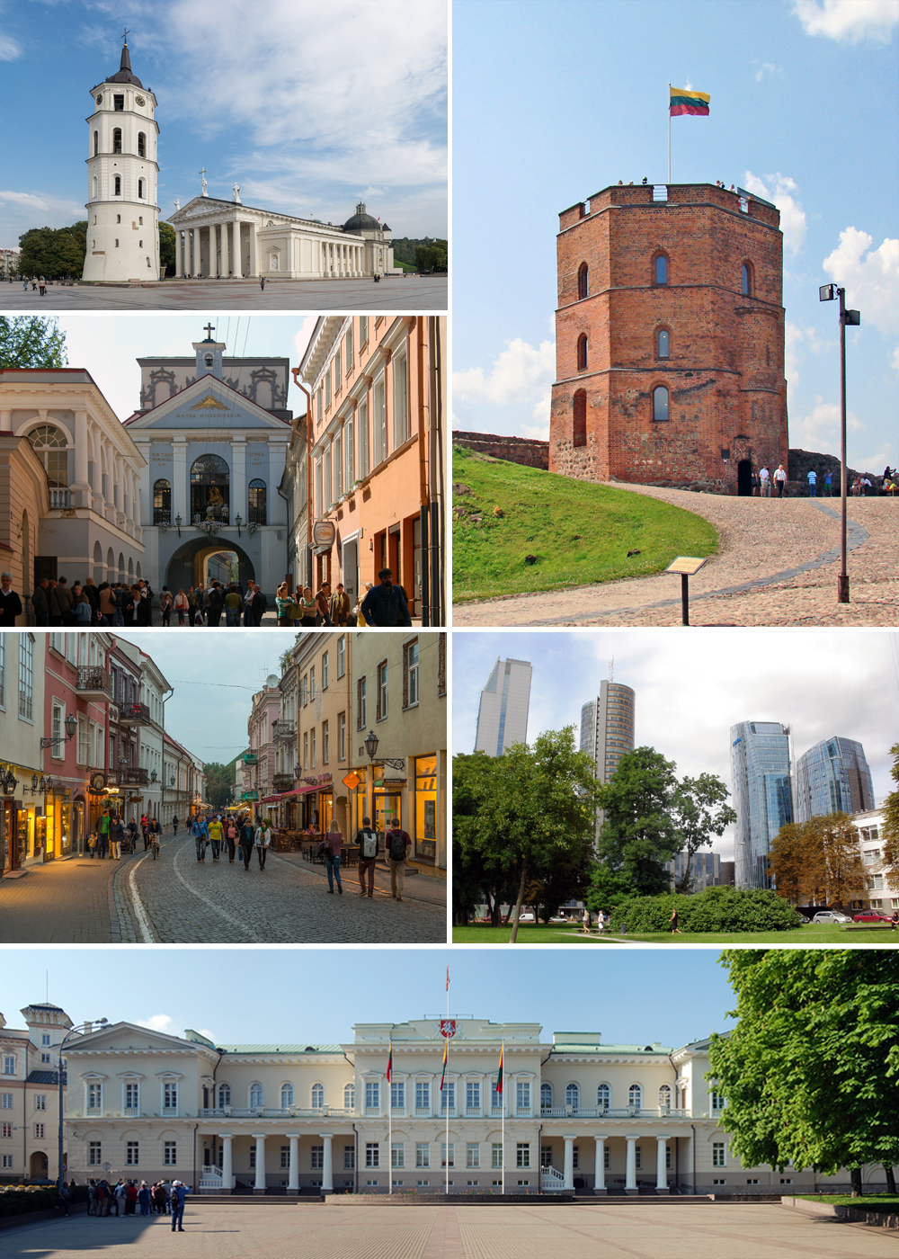 Collage for Vilnius Article.